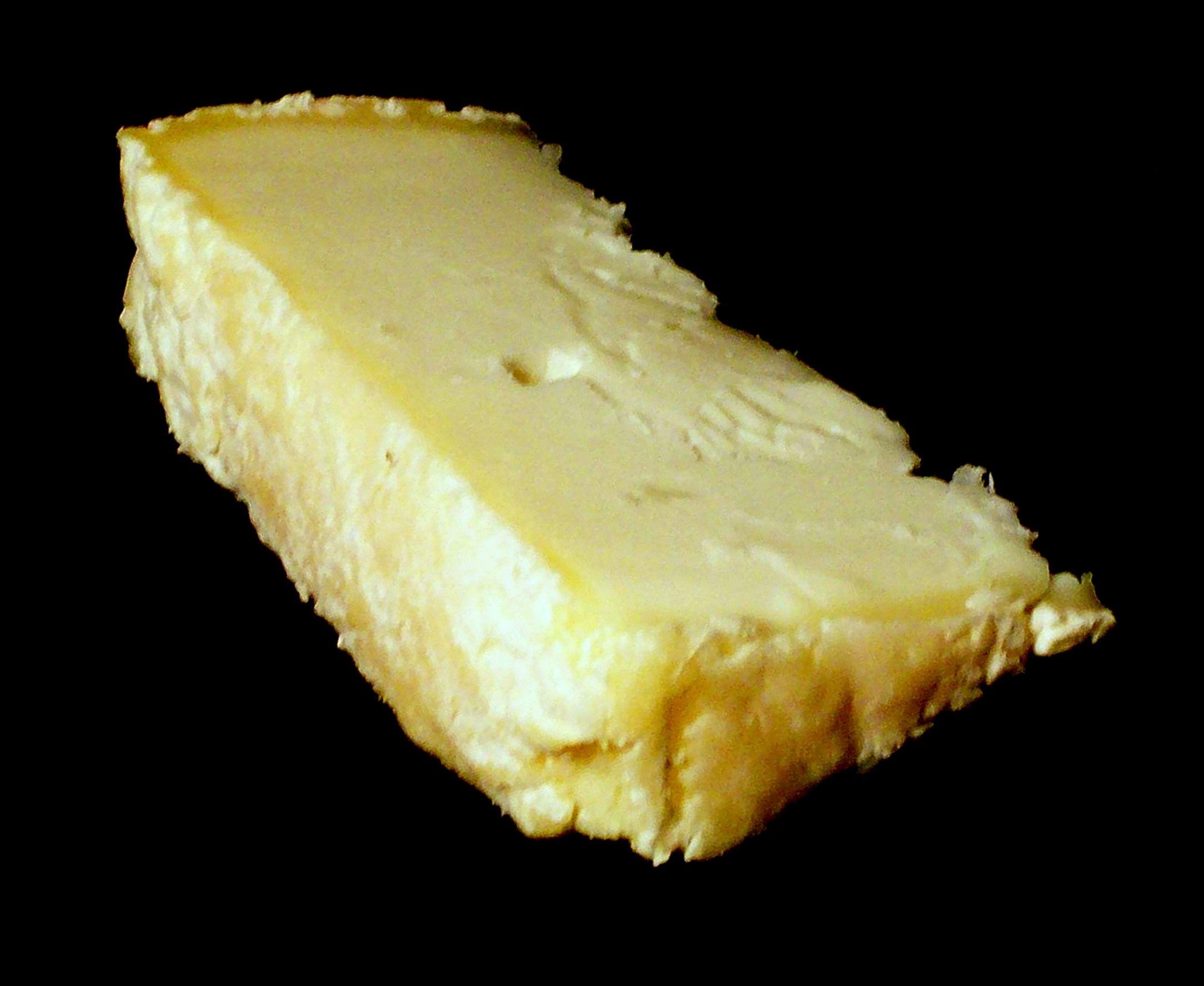 A small slice of Chabichou du Poitou cheese from France.